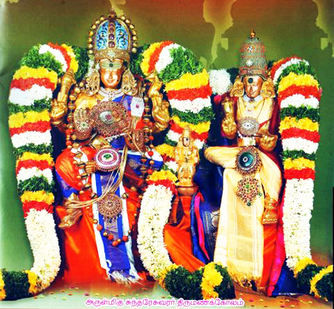 Lord Meenakshi with Sundareswarar of Madurai